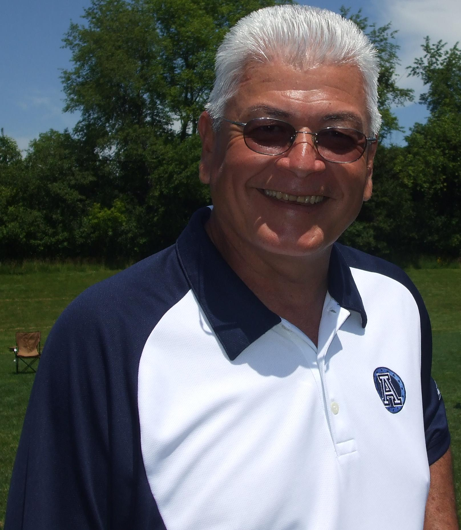 A head shot of Adam Rita taken on June 14, 2009 @ the Argos' practice facility! I informed him that this pic would be used for his Wikipedia page! A head shot of Adam Rita taken on June 14, 2009 @ the Argos' practice facility! I informed him that this pic would be used for his Wikipedia page!